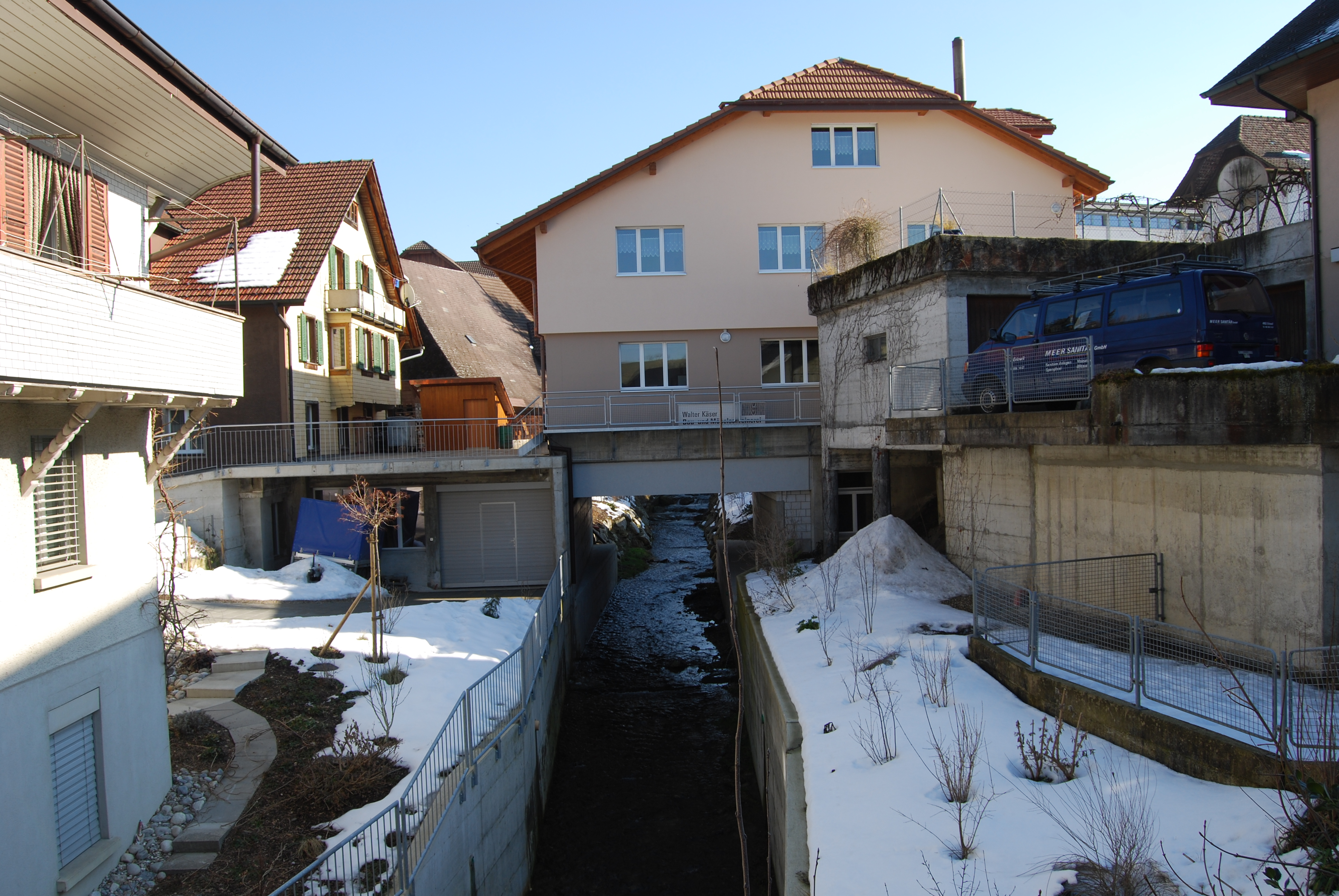 Langete at Eriswil, canton of Bern, Switzerland